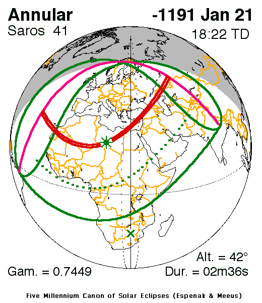 map of the solar eclipse of 21 jan 1192 BC